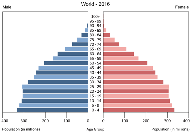 The population pyramid of World illustrates the age and sex structure of population and may provide insights about political and social stability, as well as economic development. The population is distributed along the horizontal axis, with males shown on the left and females on the right. The male and female populations are broken down into 5-year age groups represented as horizontal bars along the vertical axis, with the youngest age groups at the bottom and the oldest at the top. The shape of the population pyramid gradually evolves over time based on fertility, mortality, and international migration trends.